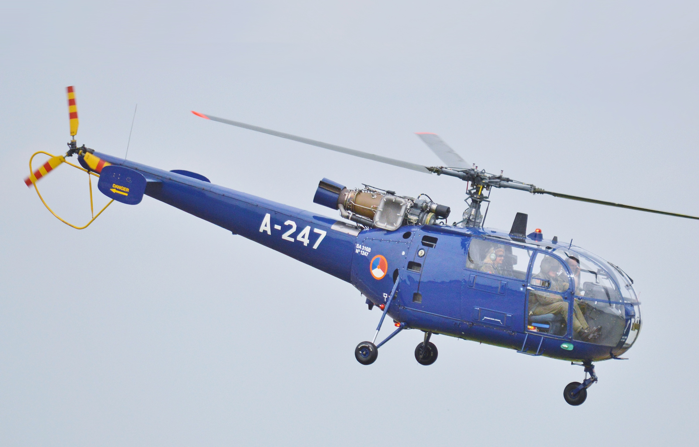 This is one of three Alouette III helicopters which were very active on local duties during '100th Anniversary of Dutch Military Aviation' airshow . Operated by 300sqn, she is heading off on another 'Traffic Spotter' flight, with the BAe Hawks of the RAF Red Arrows as a colourfull backdrop. c/n 1247. Volkel Airbase, Netherlands. 14-6-2013